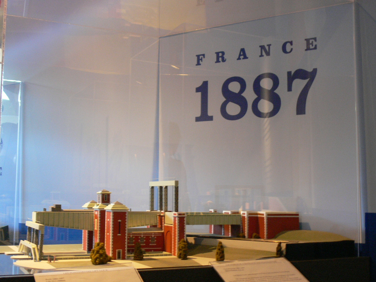 Exhibition room at the Peterborough Lift Lock historic site.